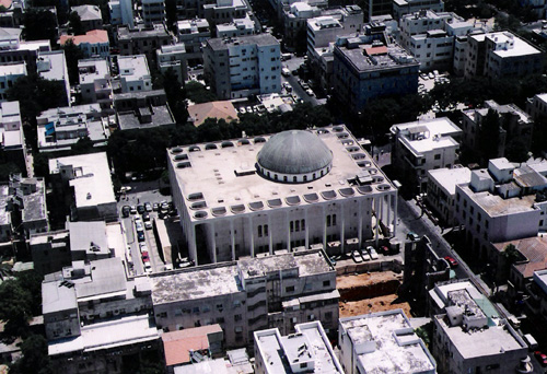 Great synagogue of Tel Aviv- View from the air